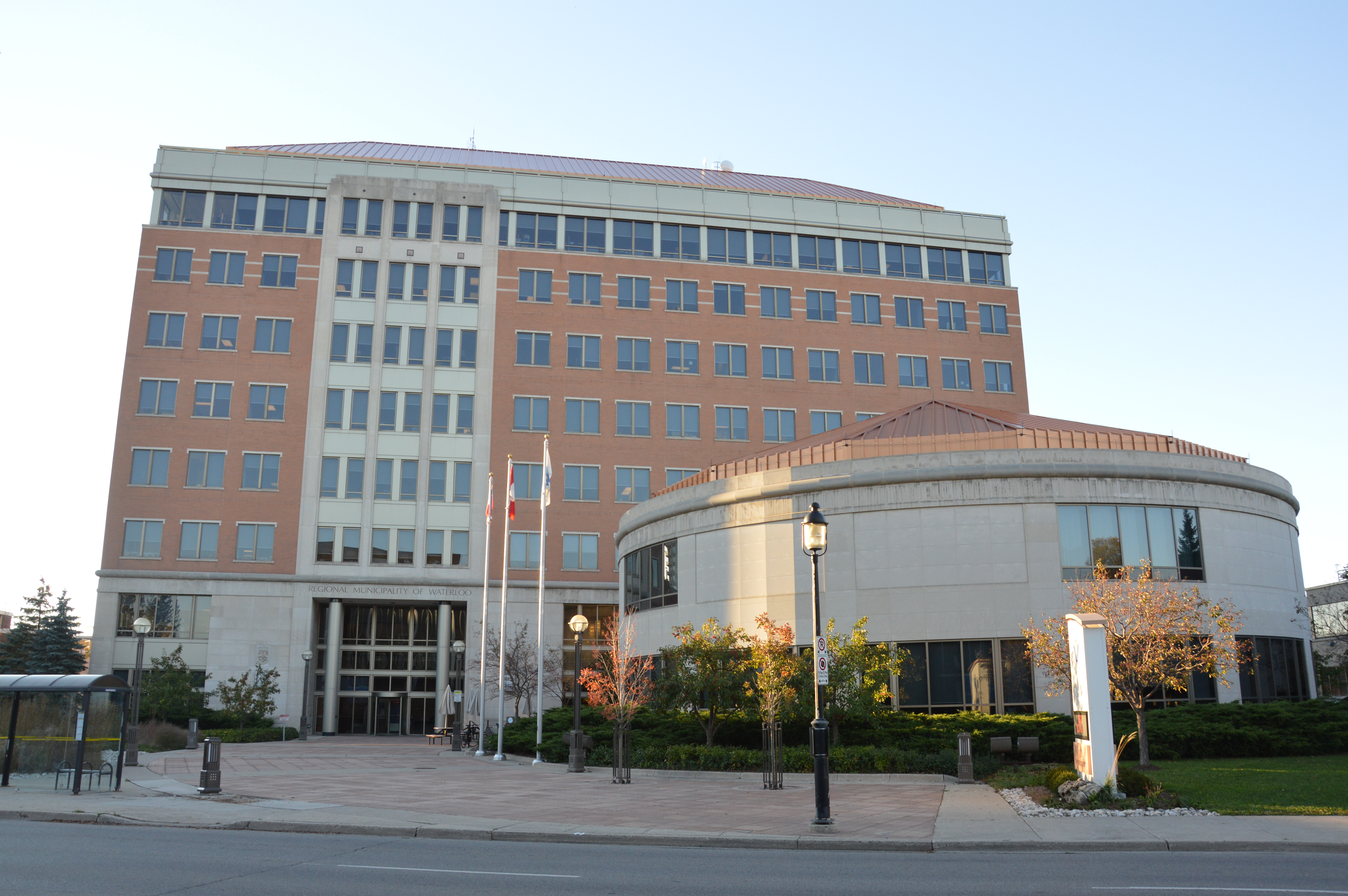 Region of Waterloo Administrative Headquarters at 150 Frederick Street in Kitchener, Ontario, Canada